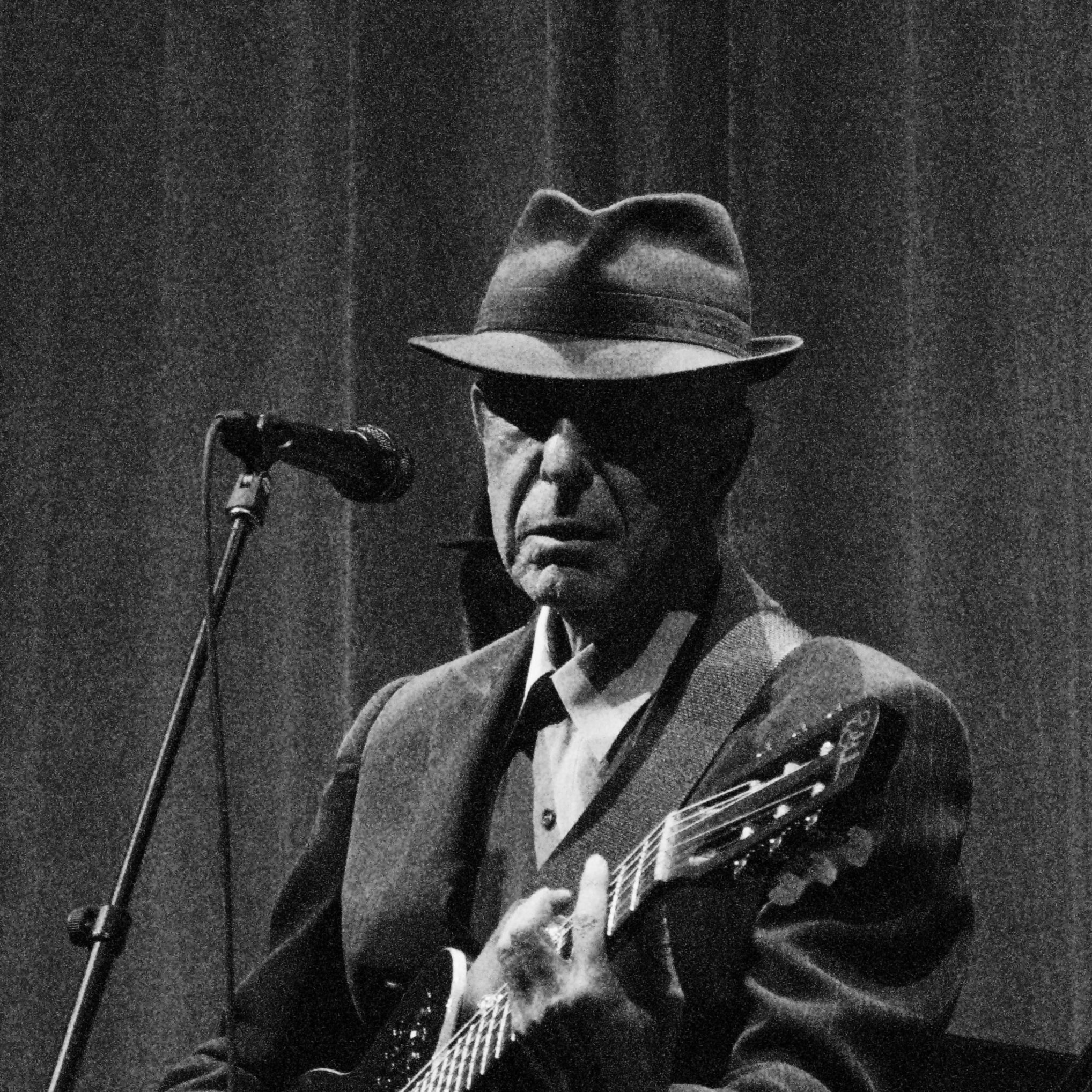 Leonard Cohen